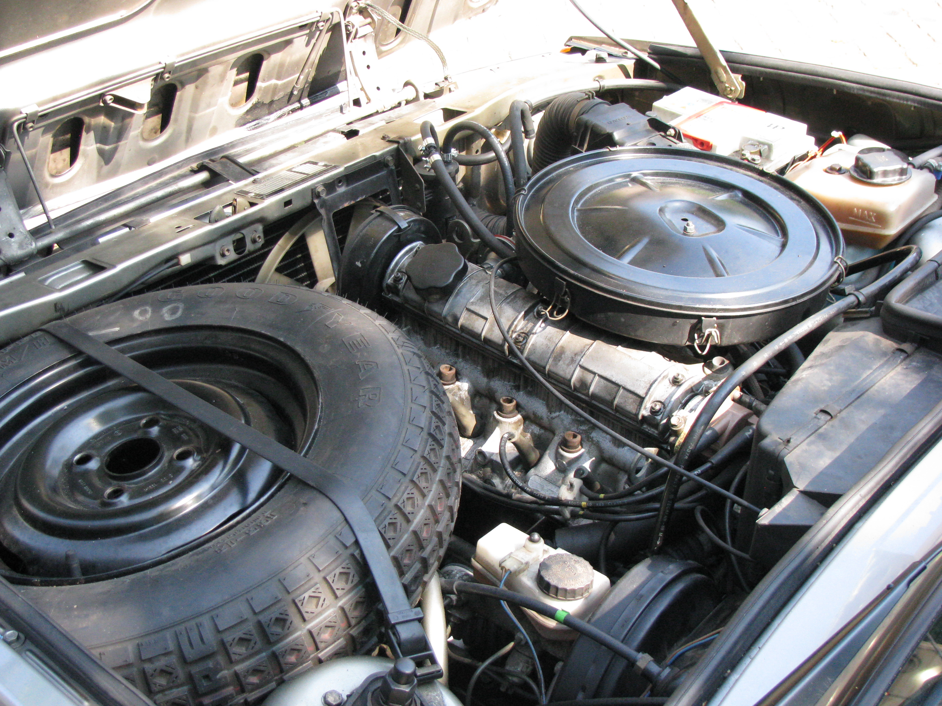 Volvo 340 1.7 engine. An engine from a Volvo 340. It's a Renault engine, and the most rare of the Volvo 300-series. It's a very smooth and powerful (80hp, 115Nm) engine with also a nice fuel-economy. This was the F2N when installed by Renault, but in Volvos it was called B172 instead. Unfortunately, it didn't succeed because of some some reliability problems with it's carburetor.